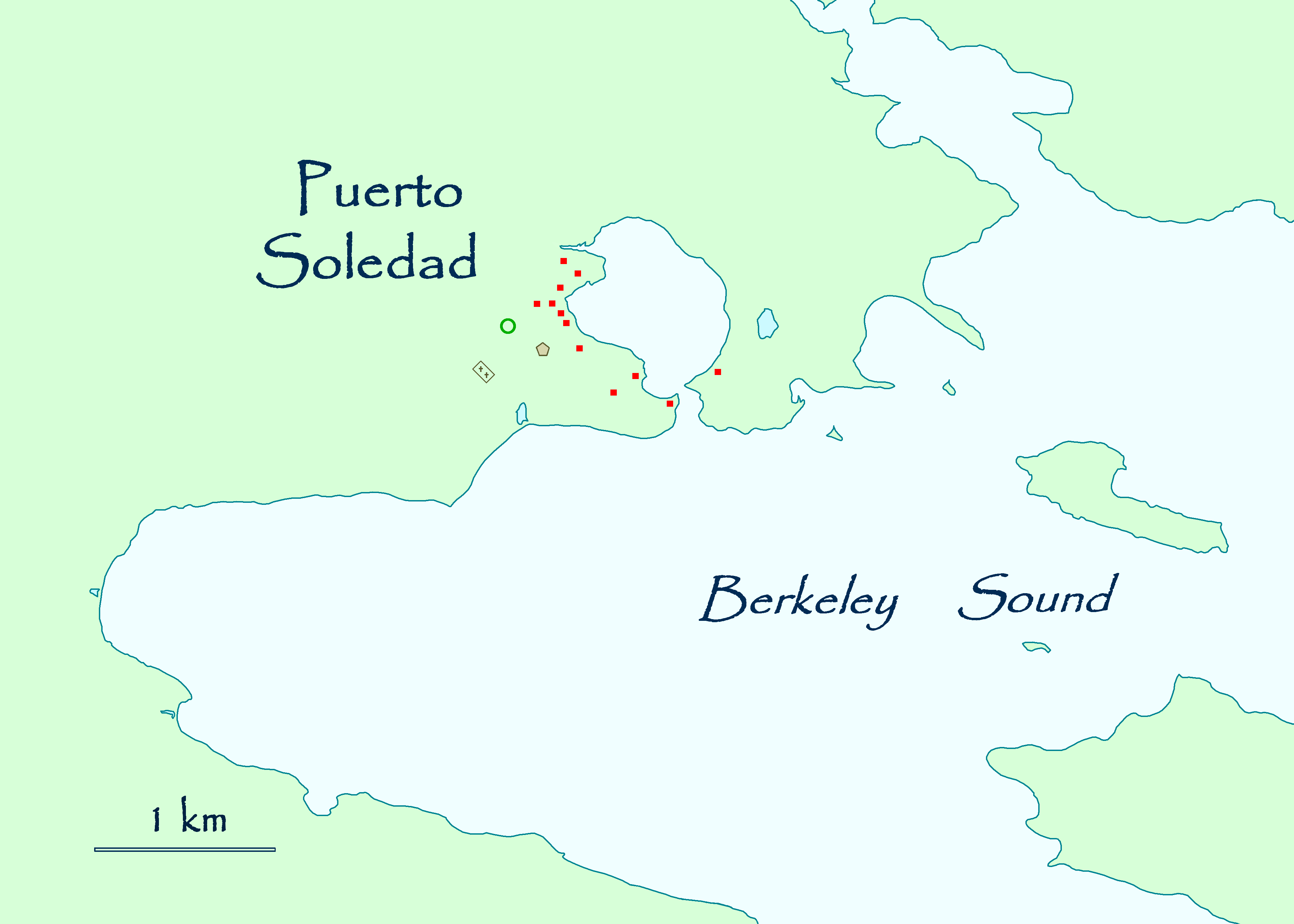 Map of the historical settlement of Puerto Soledad, Falkland Islands.